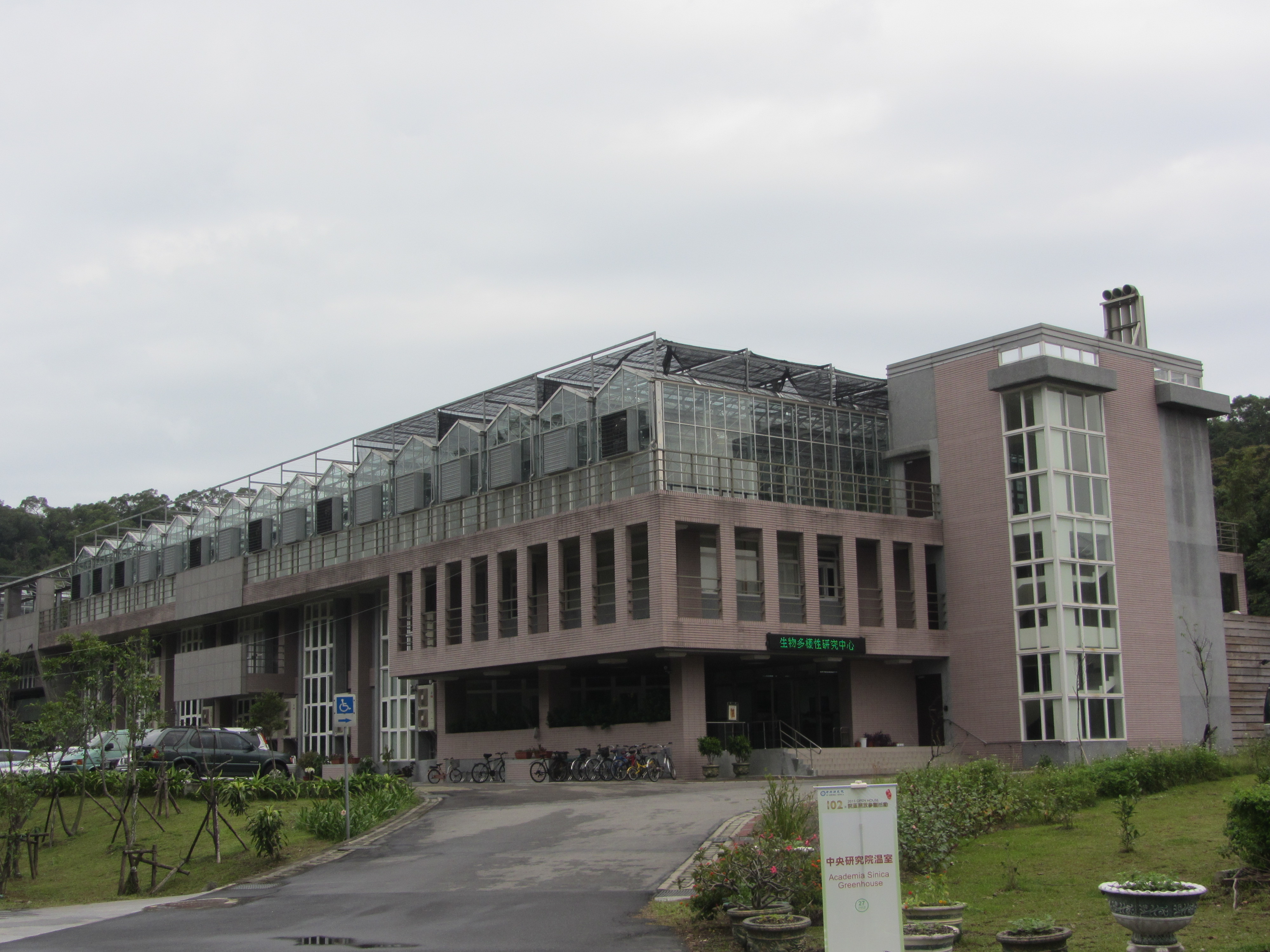 Biodiversity Research Center, Academia Sinica